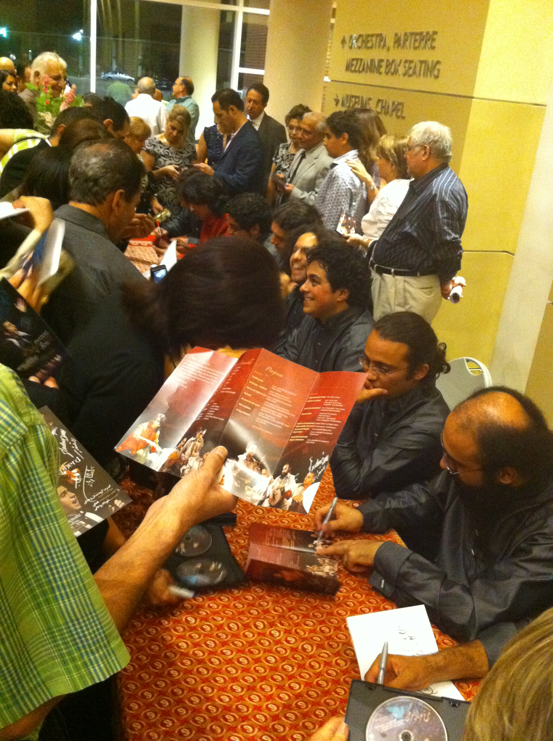 Homay & Mastan 2010 US/Canada Tour, Houston, TX